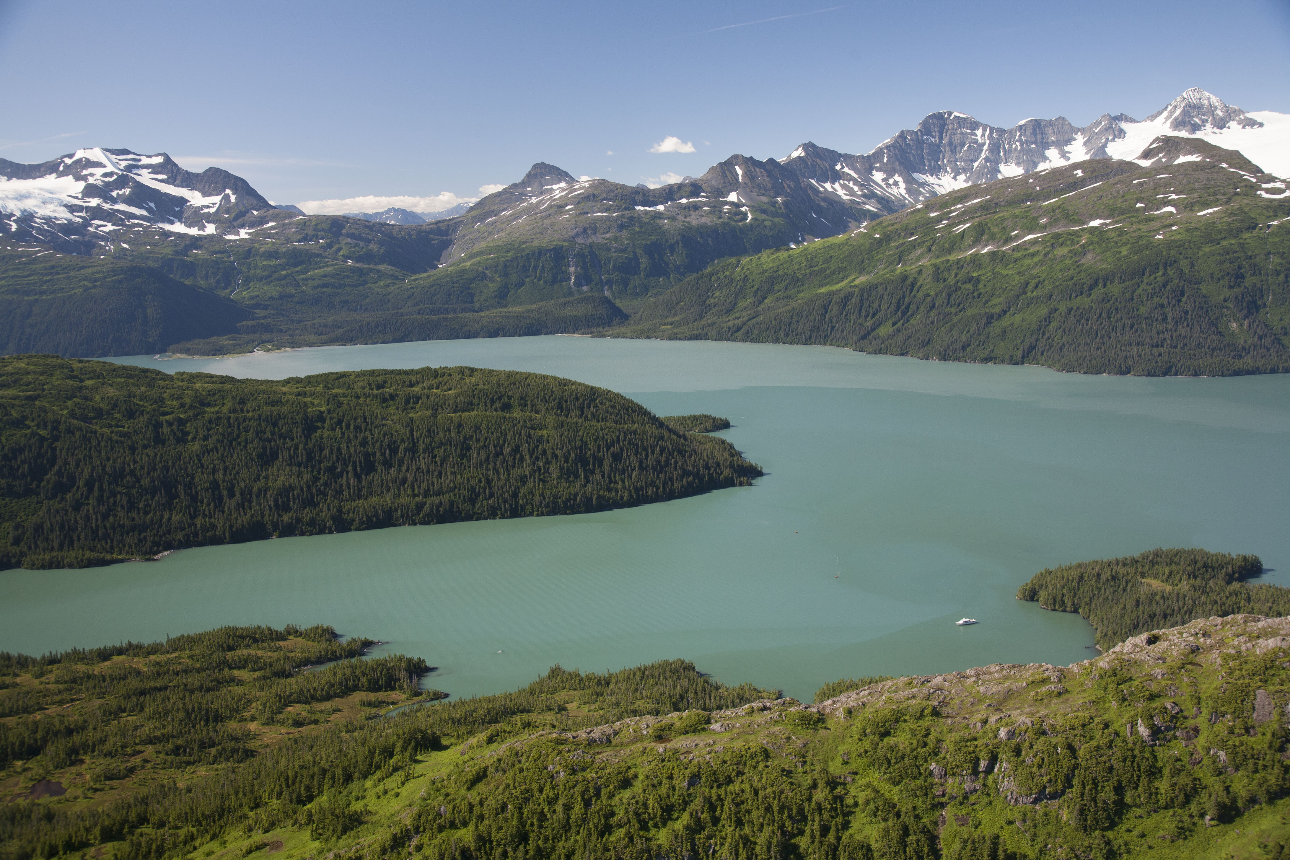 Aerial Shotgun Cove, Passage Canal, and Passage Peak (upper right). Prince William Sound, Chugach National Forest, Alaska.